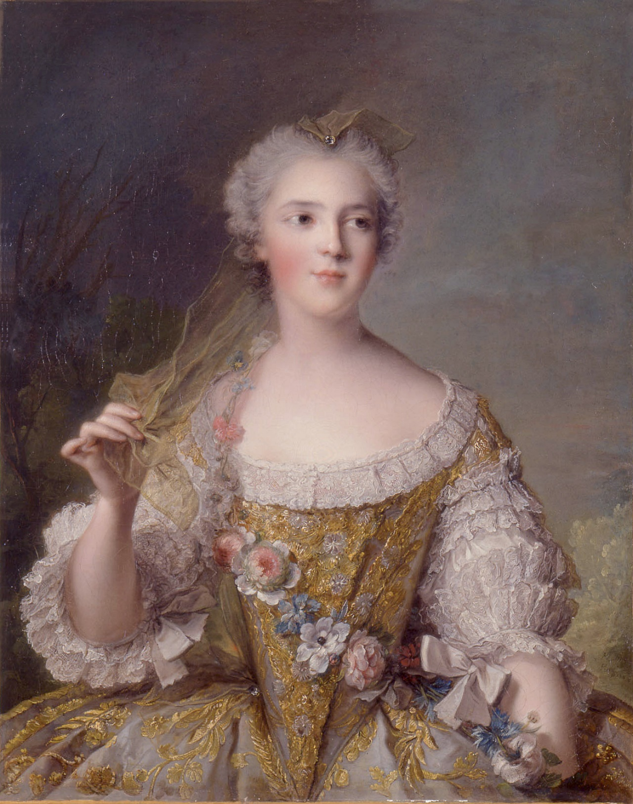 Sophie-Philippine-Élisabeth-Justine of France (1734–1782), known as Madame Sophie, daughter of Louis XV, in a court dress and holding her veil